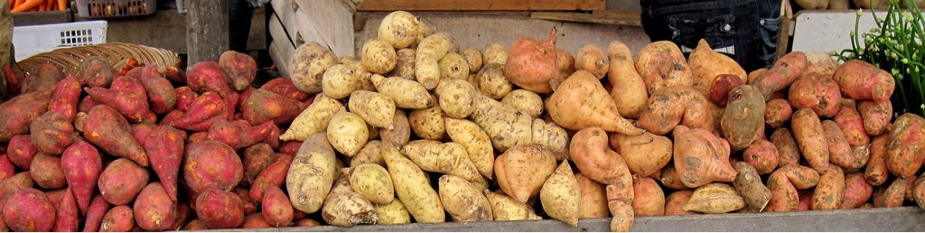 Created by cropping